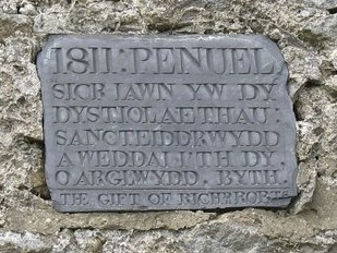 Plaque on Capel Penuel/Peniel at Peniel, Bachau Dated 1811, it bears a quotation from Psalm 93 v.5 "Thy testimonies are very sure: holiness becometh thine house, O LORD, for ever".